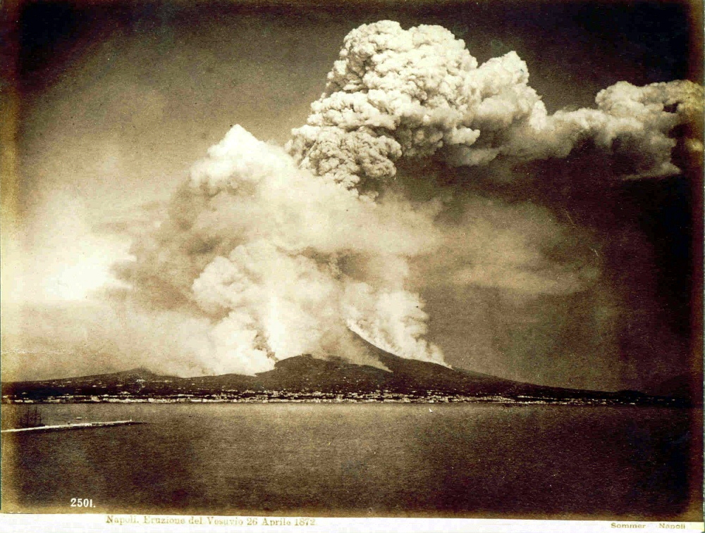 Giorgio Sommer (1834-1914), "Naples - Eruption of Mount Vesuvius on April 26 1872". Catalogue # 2501.